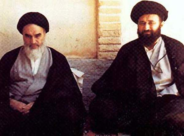 Ruhollah Khomeini and his son, mostafa in najaf-iraq.